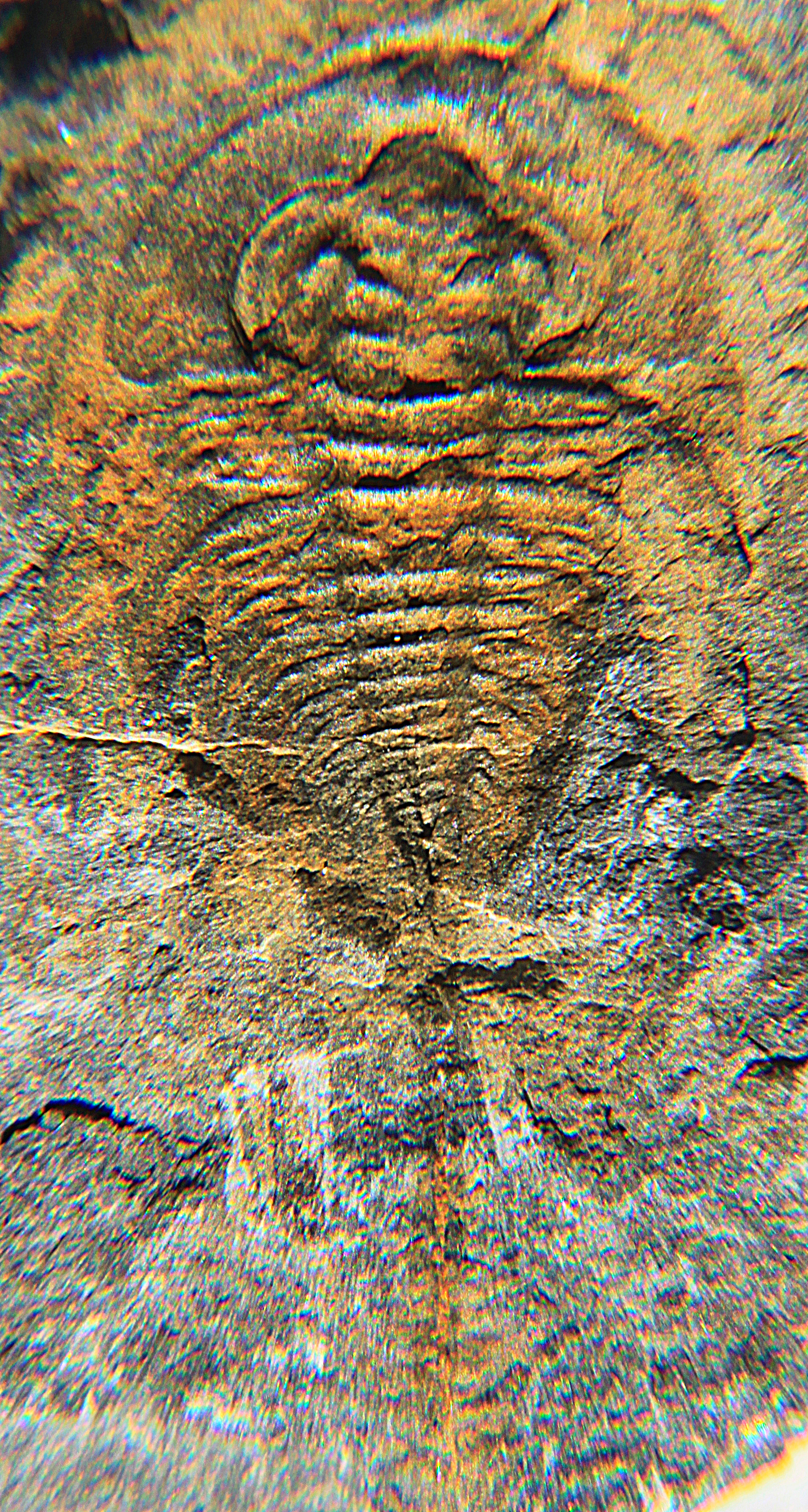 An Olenellus yorkensis trilobite, Order Redlichiida, Family Olenellidae, 17mm along the axis (spine excluded), collected from the Kinzers Formation, Lancaster County, Pennsylvania, USA, from the Lover Cambrian (Botonian), negative